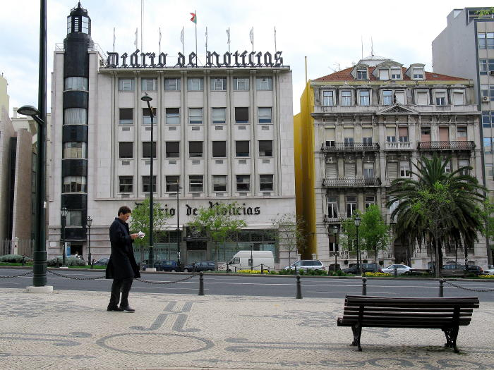 Headquarter of the Portuguese newspaper "Diário de Notícias", on "Avenida da Liberdade" in Lisbon, near Praça Marques de Pombal.